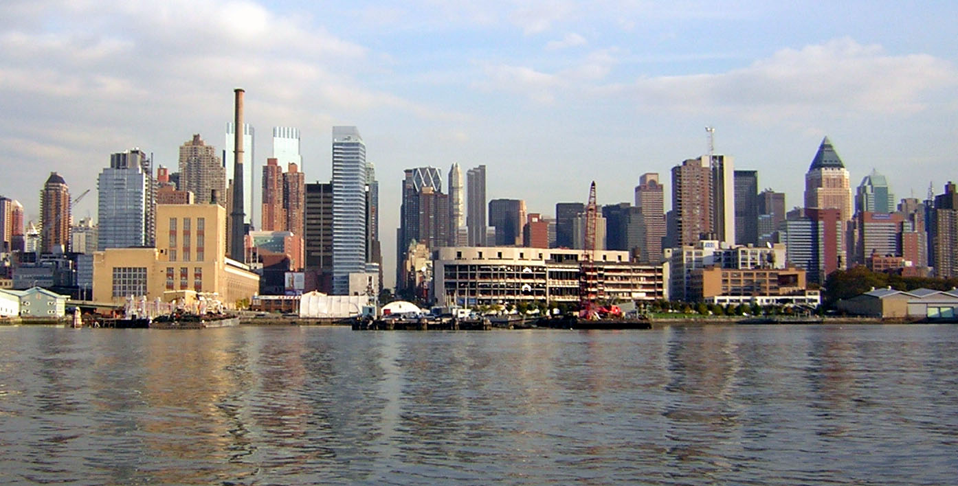 Looking east over the salt pile and up 57th Street, from a Circle Line boat in the Hudson River